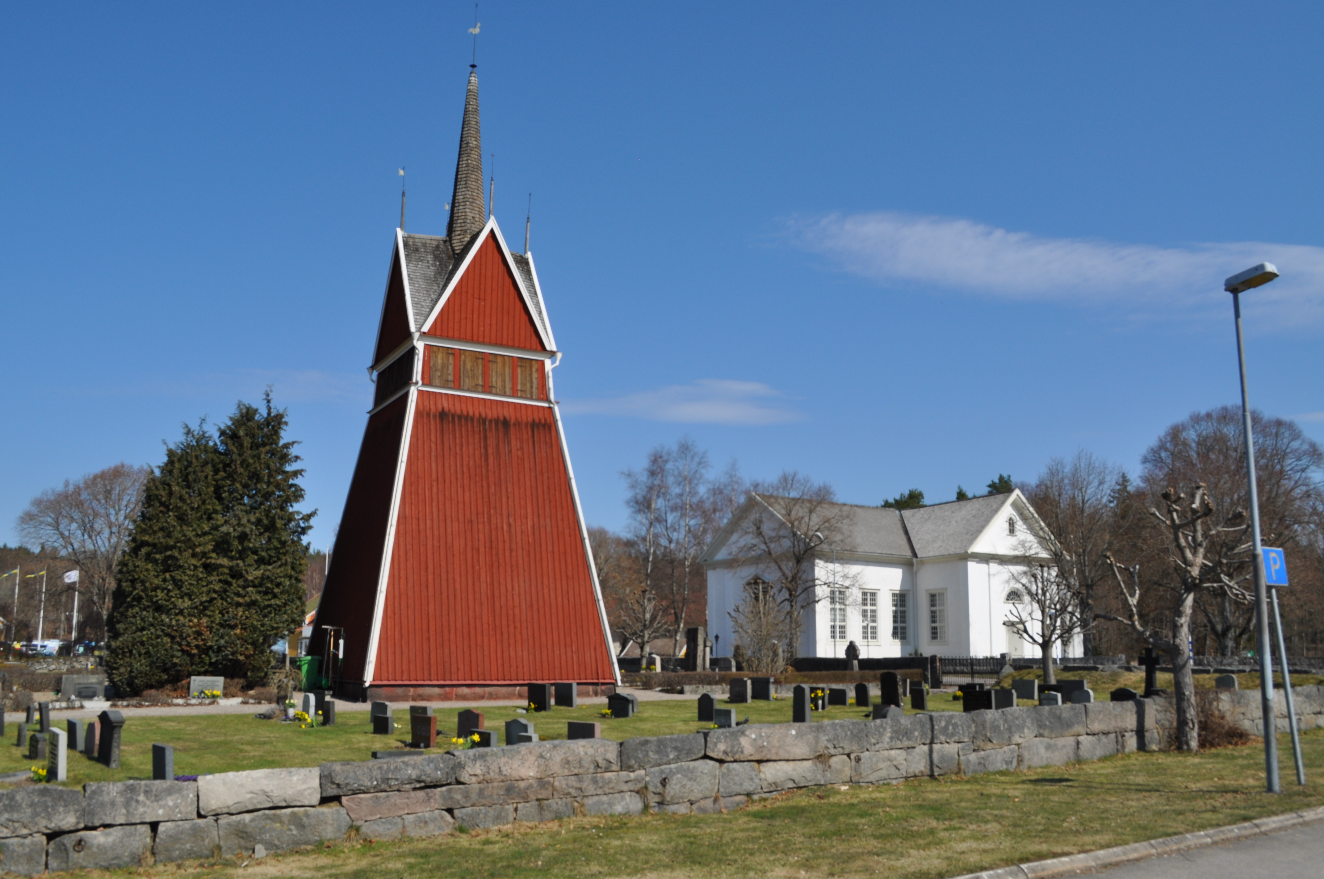 Hallabro kyrka - Ronneby församling - Lunds stift